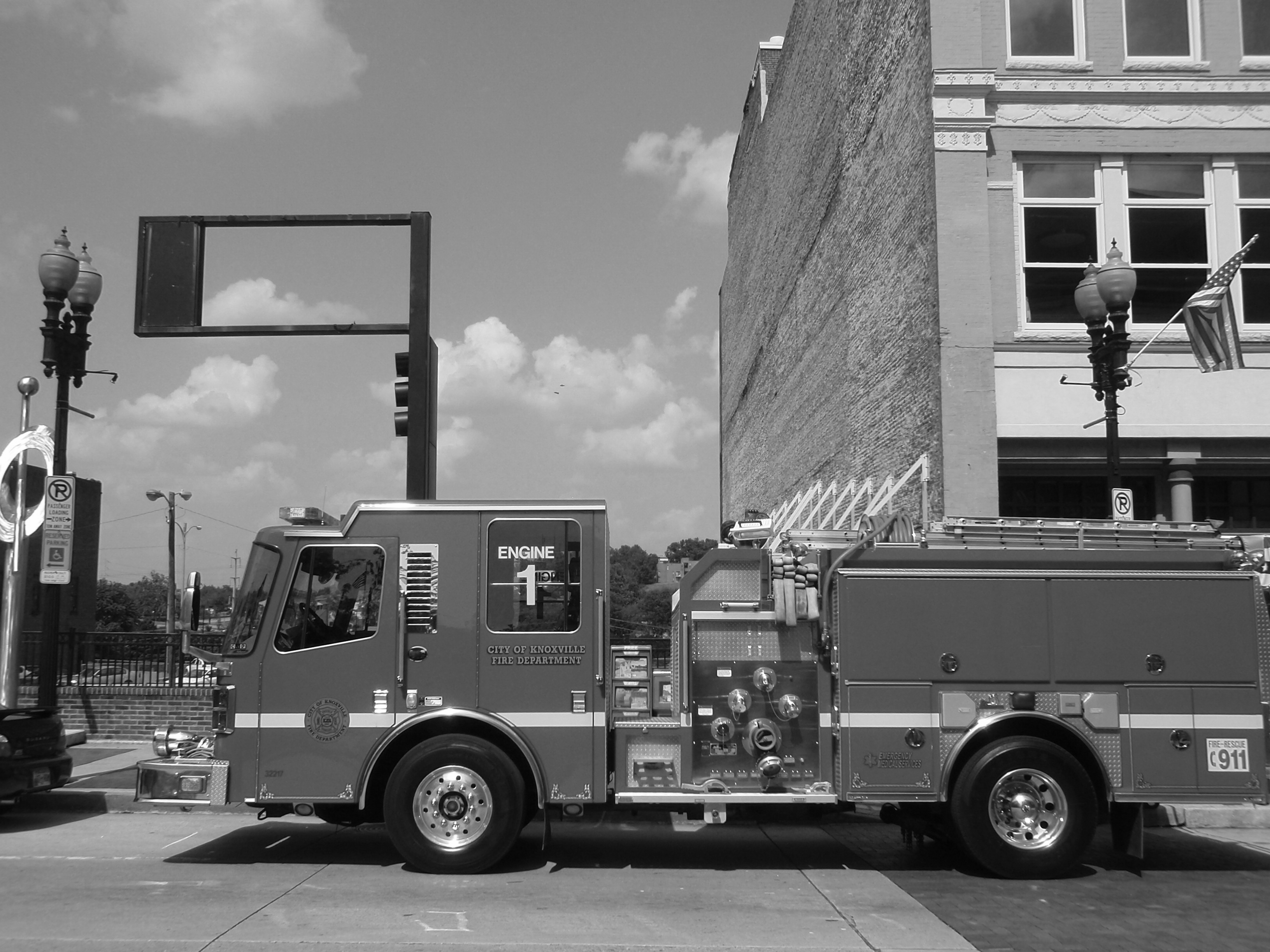 City of Knoxville Fire Department engine #1